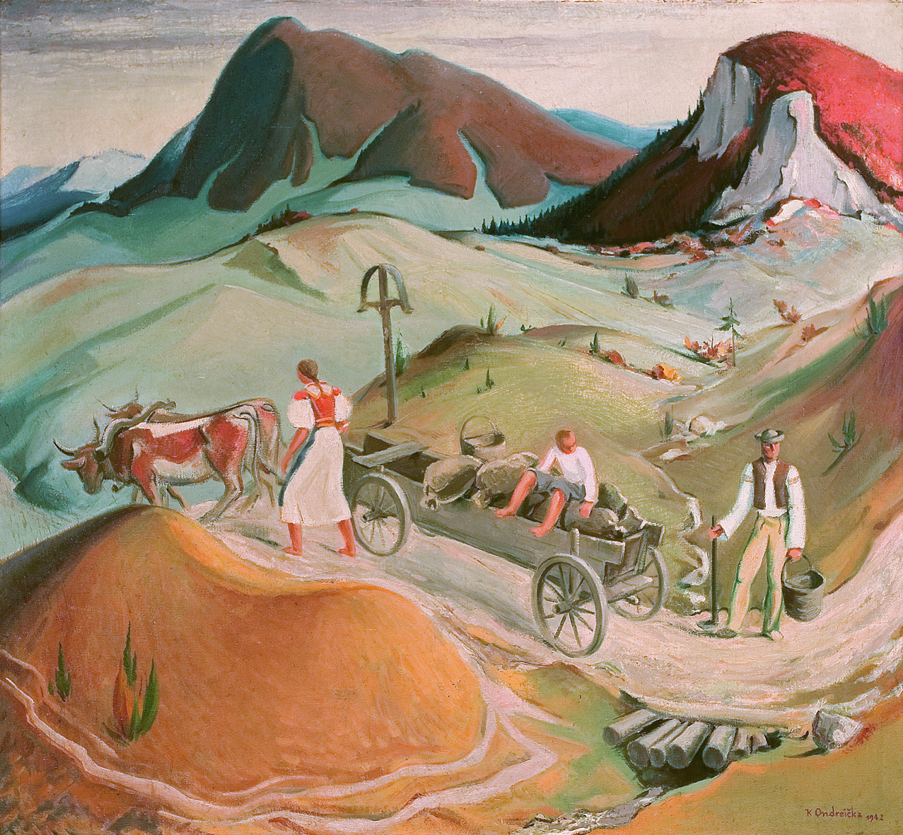 olejomaľba na plátne